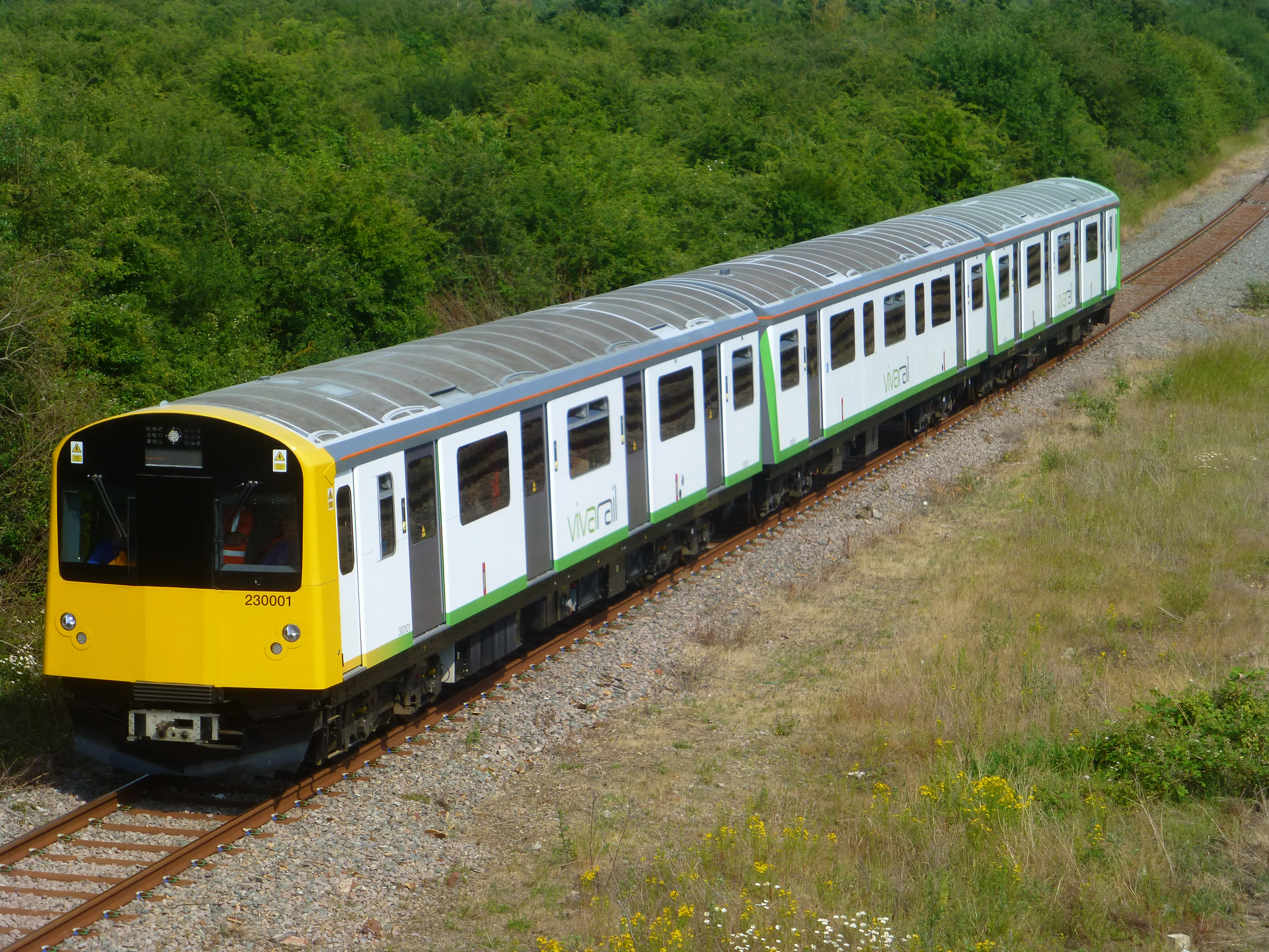 The prototype Class 230 Vivarail D-Train approaches Honeybourne station during Rail Live 2017.